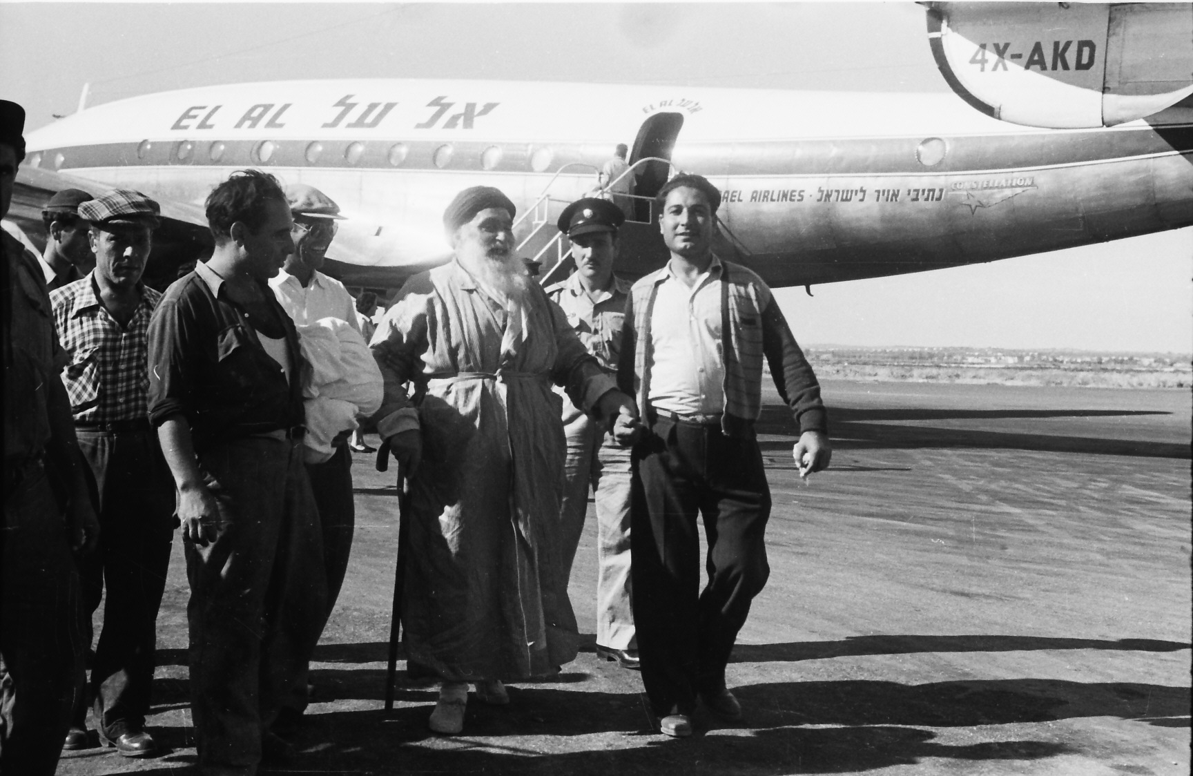 Immigration to Israel